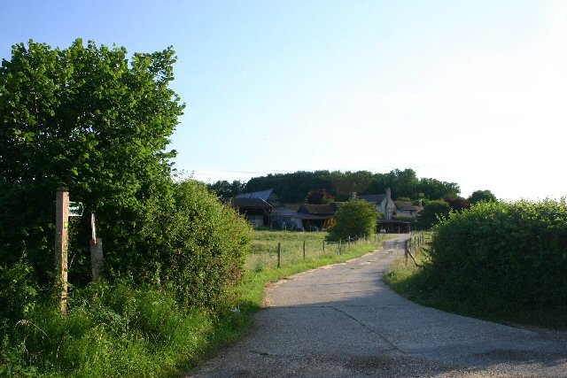 Footpath to Gallowgate Farm and Fenstead End. Part of the Bury St Edmunds to Clare long-distance walk.